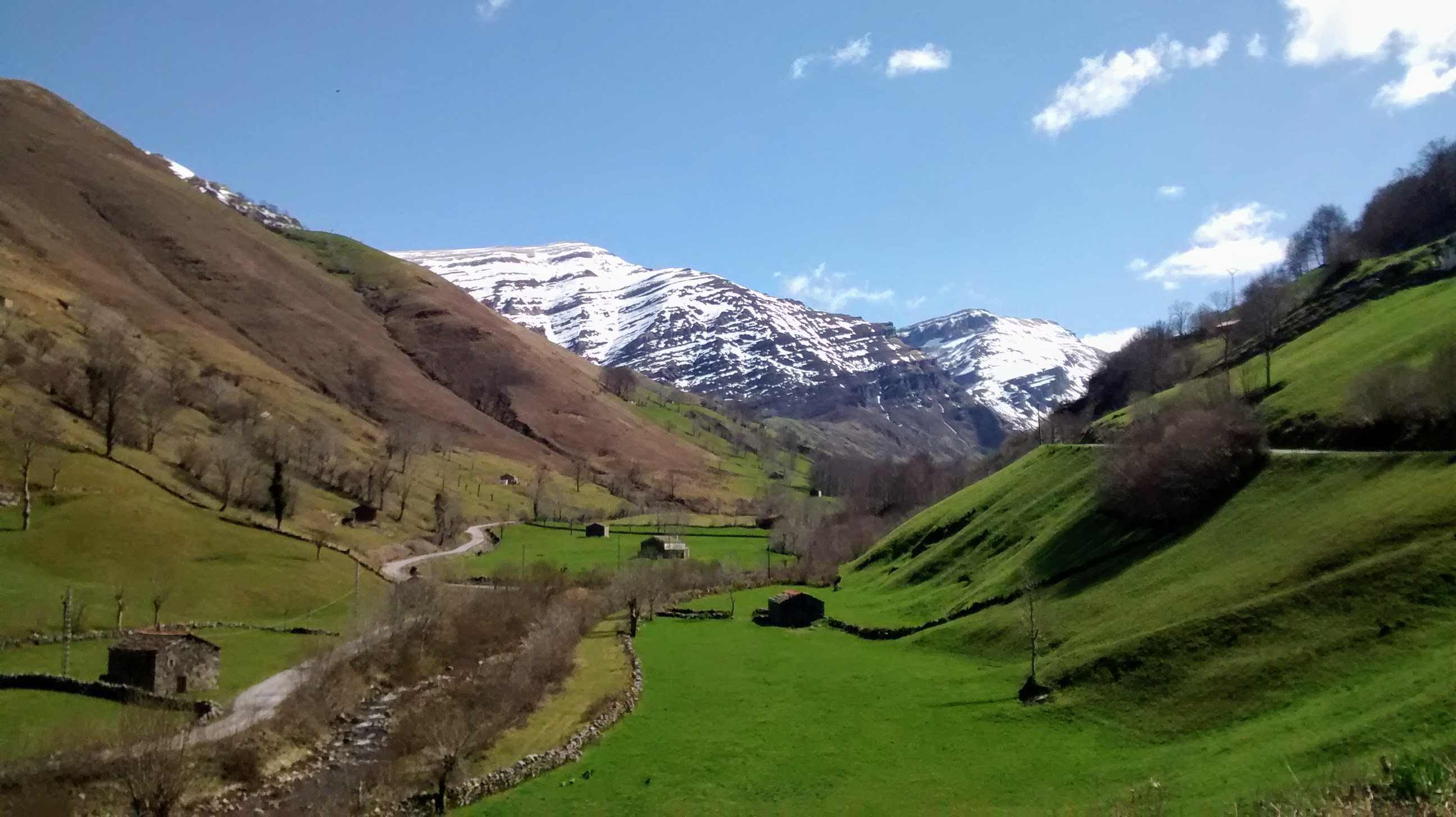 View of the river Miera upstream as it passes through Secadía, in the town of La Concha, municipality of San Roque de Río Miera (Cantabria, Spain)